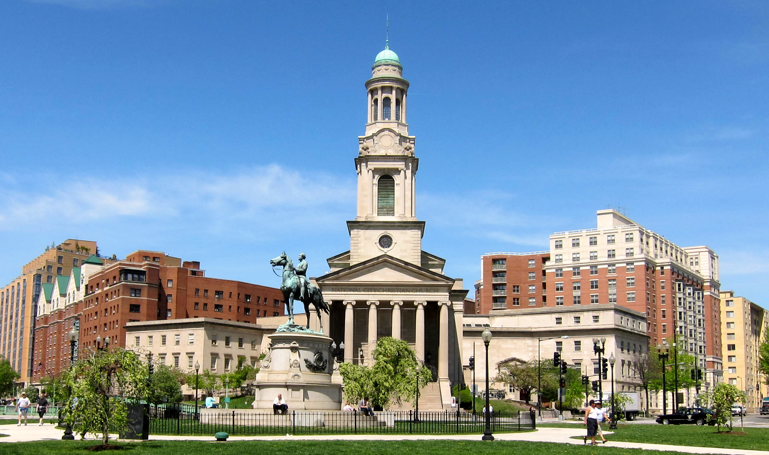 The northwest portion of Thomas Circle, located in the Logan Circle neighborhood of Washington, D.C. The bronze equestrian statue of General George Henry Thomas, a prominent commander during the American Civil War, is visible in the foreground. National City Christian Church, the "national cathedral" for the Christian Church (Disciples of Christ) denomination, is sited prominently on the corner.